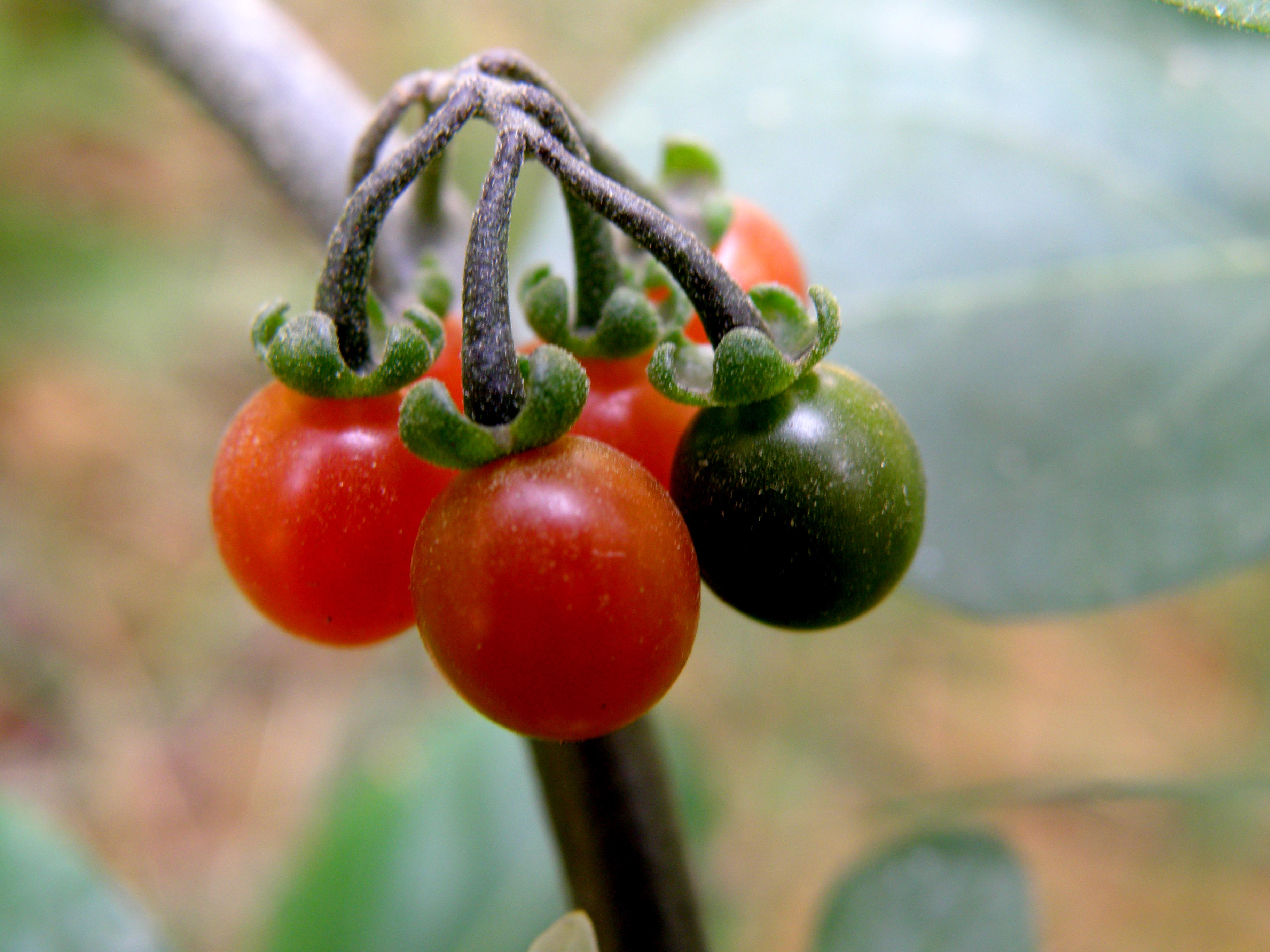 Ripe and unripe Solanum Nigrum berries growing on the same stalk in India